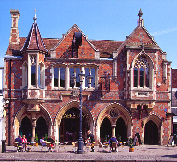 Old Town Hall Berkhamsted Author Robert Stainforth